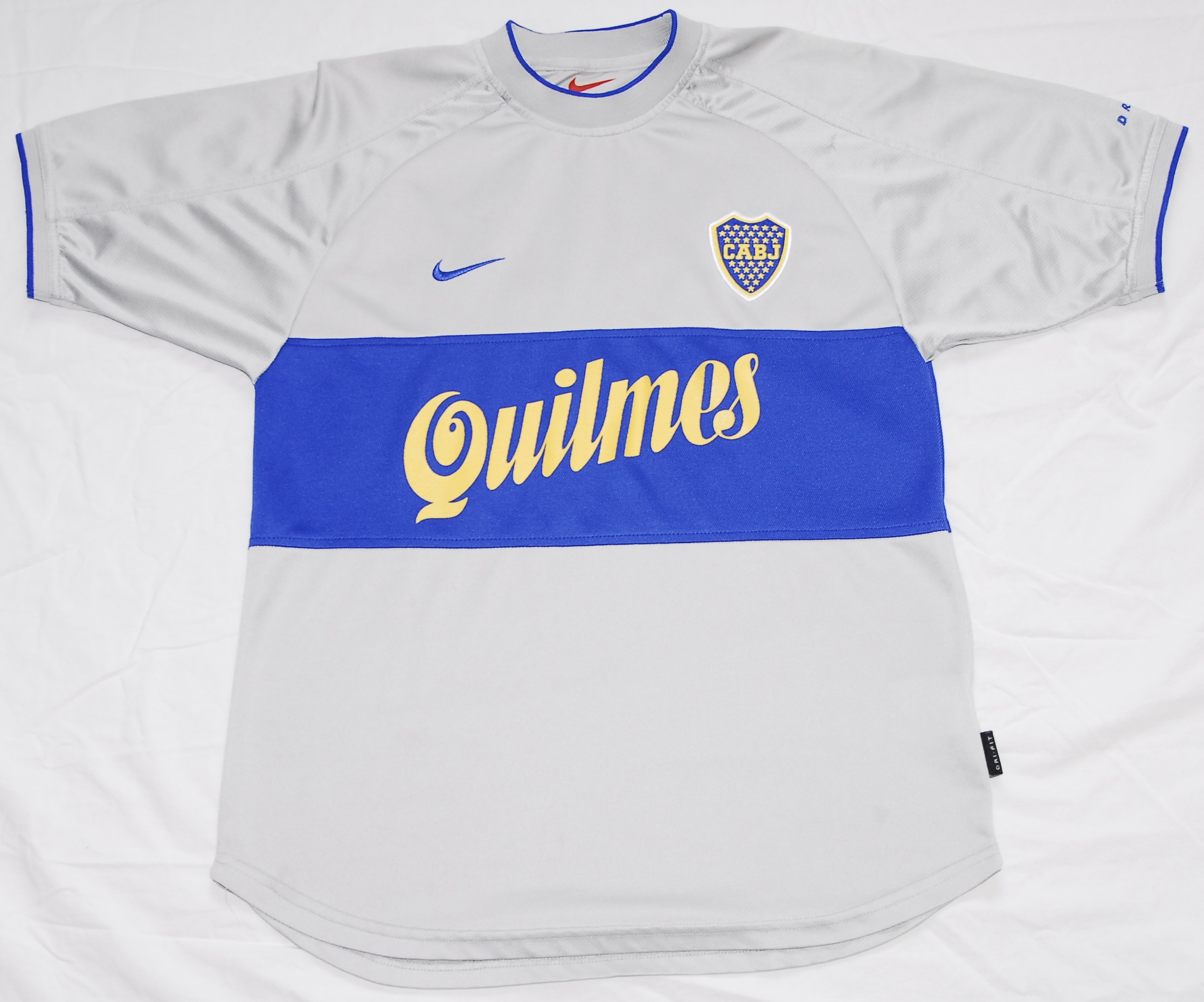 Boca Juniors 2000 Alternate Jersey